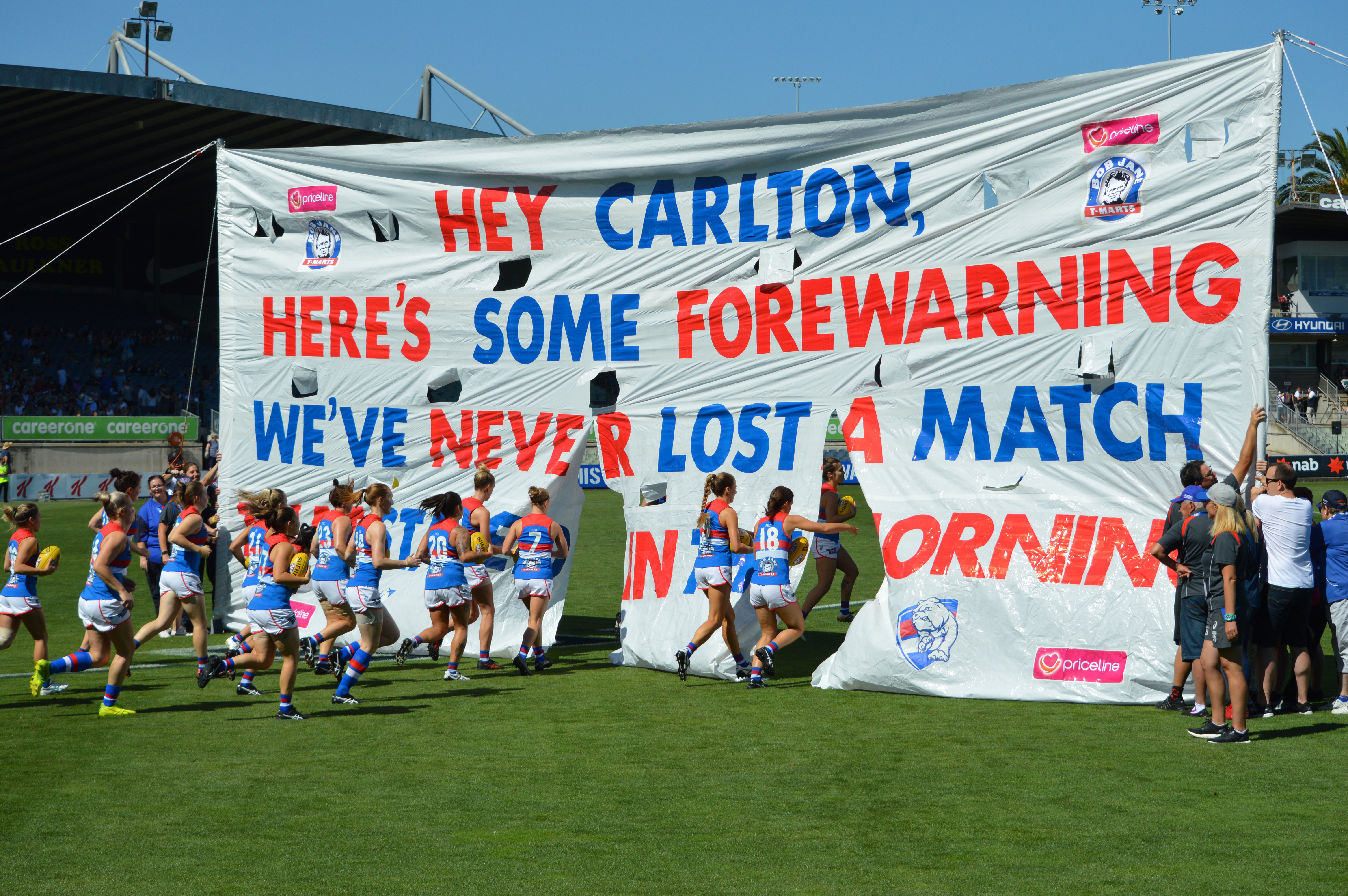 Western Bulldogs AFLW side enter the stadium in March 2017